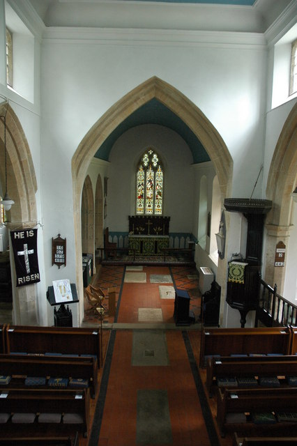 Interior of Stowe parish church The nave and chancel of St Mary's church in Stowe Landscape Gardens.